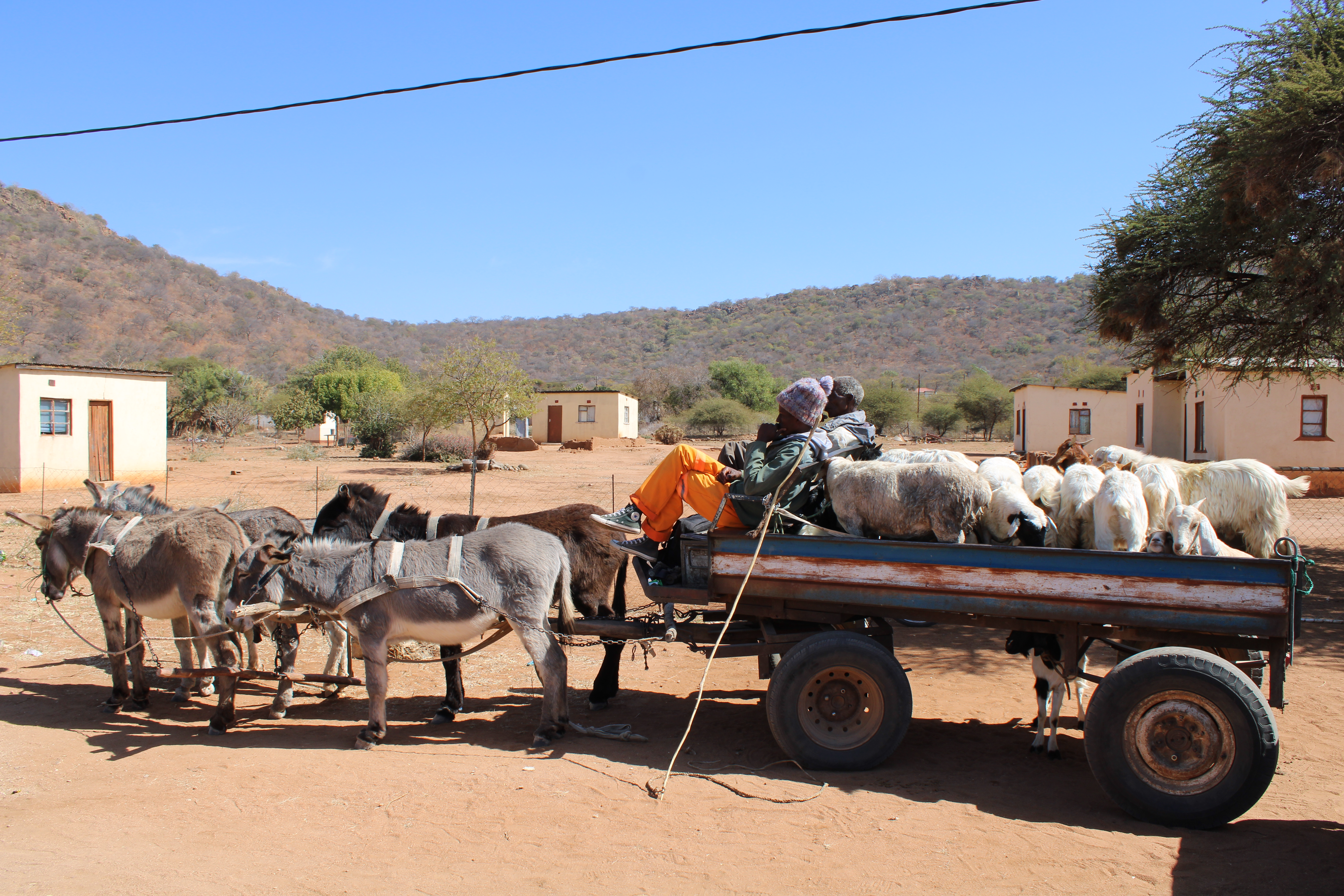 This is an image with the theme "Africa on the Move or Transport" from: Botswana